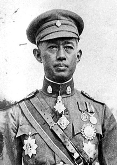 Prince Boworadet, Thai Rebel, Minister of Defence and Ambassador to France